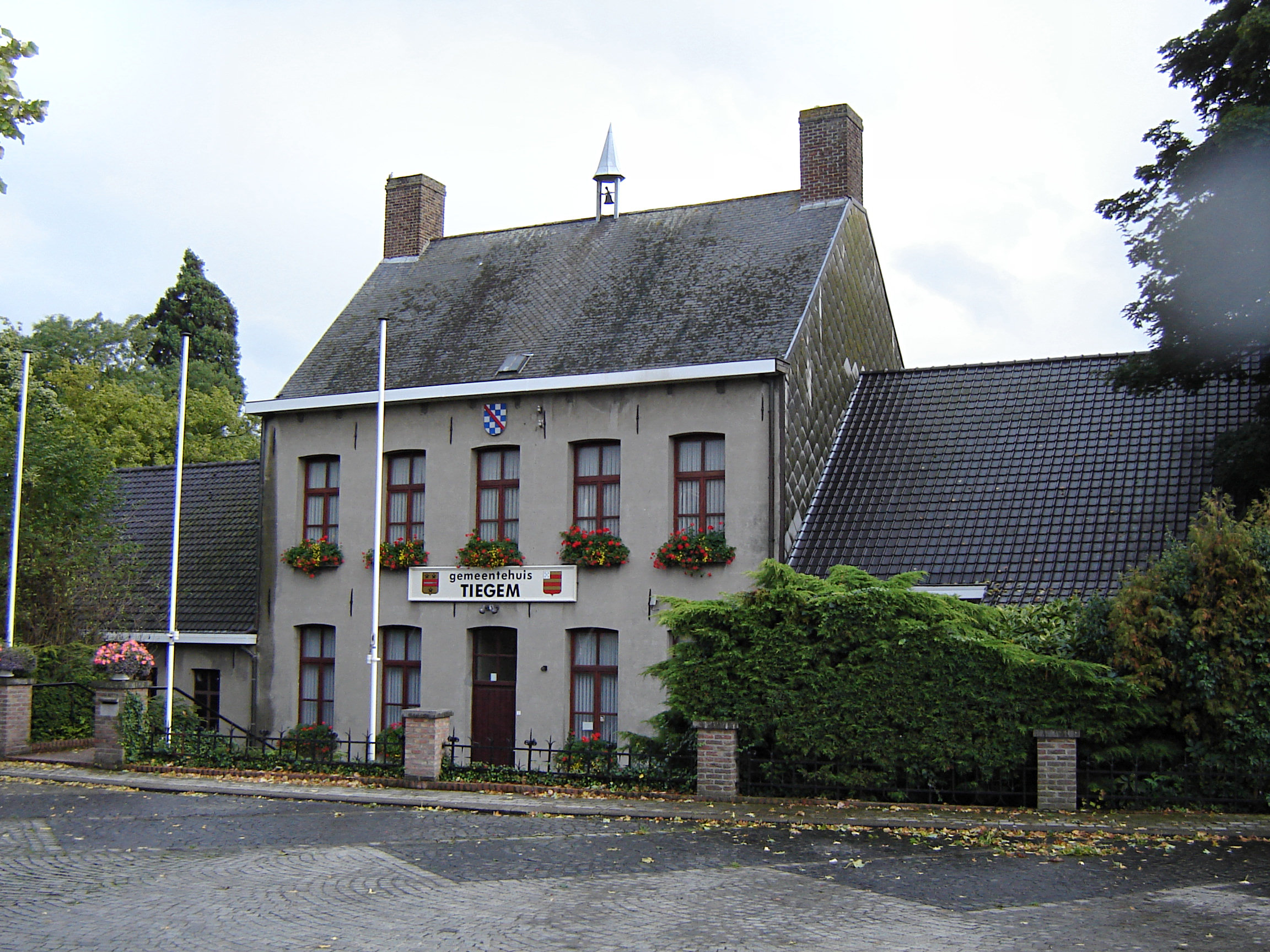 Former town hall of Tiegem. Tiegem, Anzegem, West Flanders, Belgium